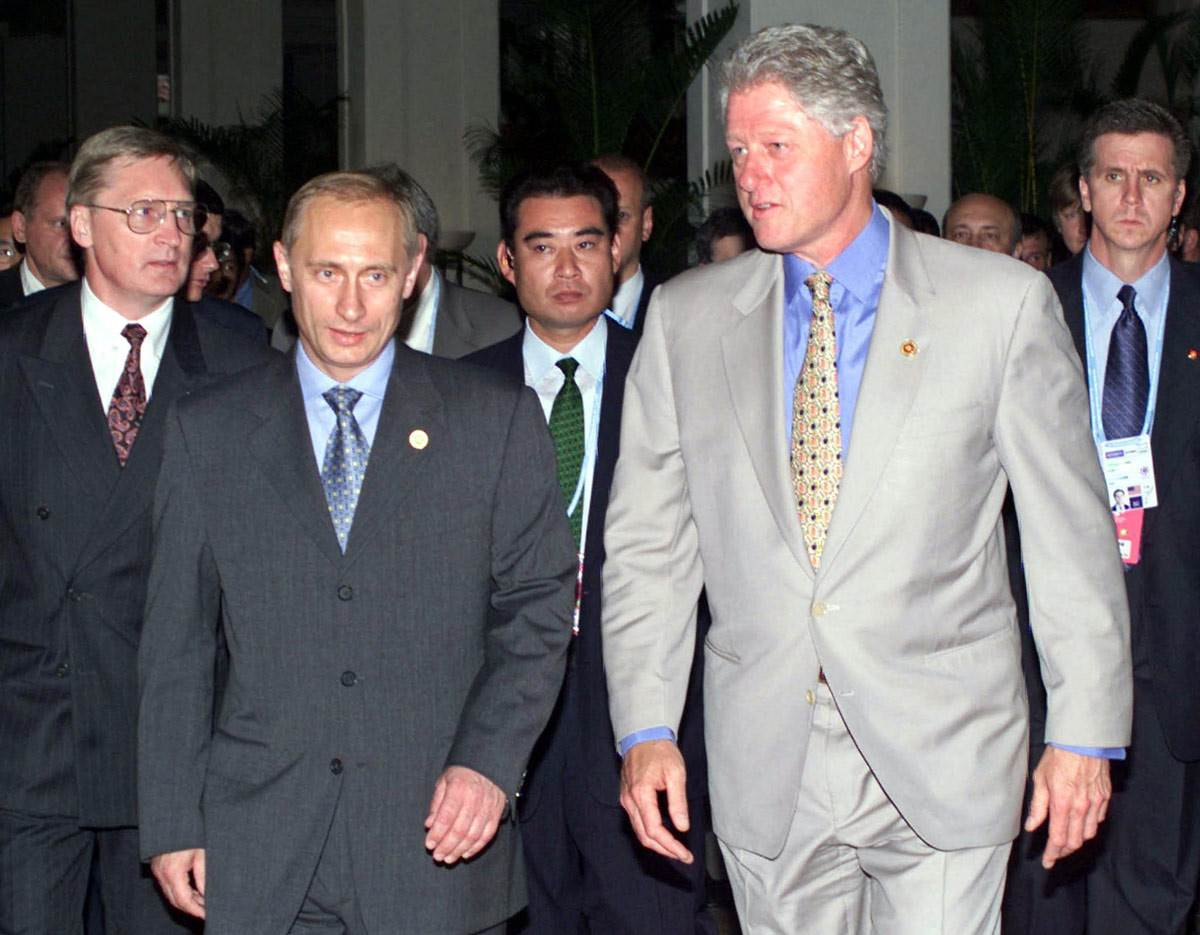 OKINAWA, JAPAN. President Putin with US President Bill Clinton.